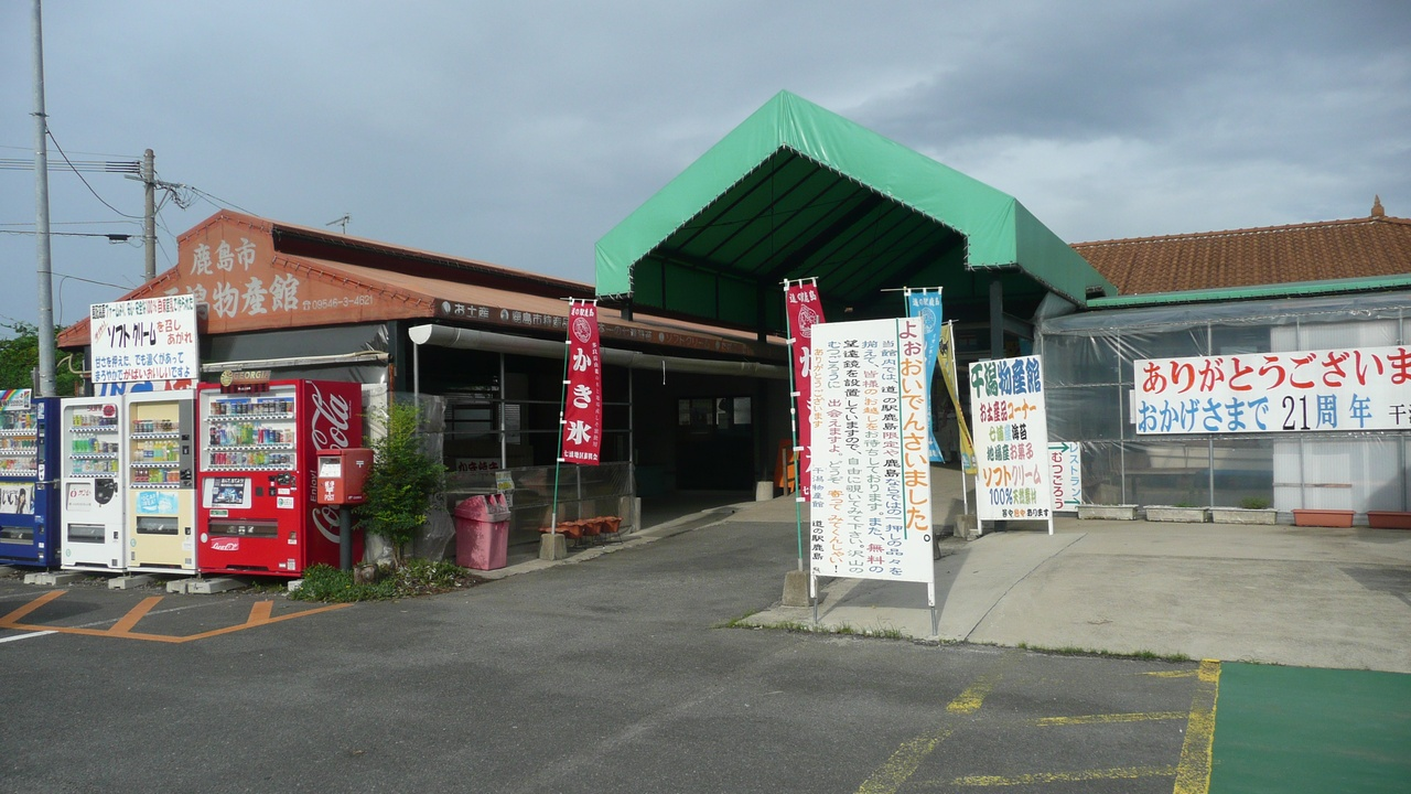 Michinoeki Kashima (Kashima City, Saga, Japan)